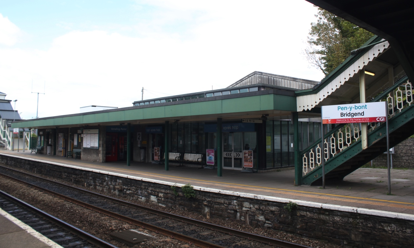 Platform 2 of Bridgend station is used by trains on the main line towards Cardiff and London.